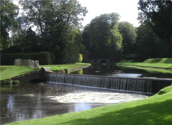 Weir in Studley Royal Gardens This weir is known as Drum Falls, due to the noise that the falling water makes.